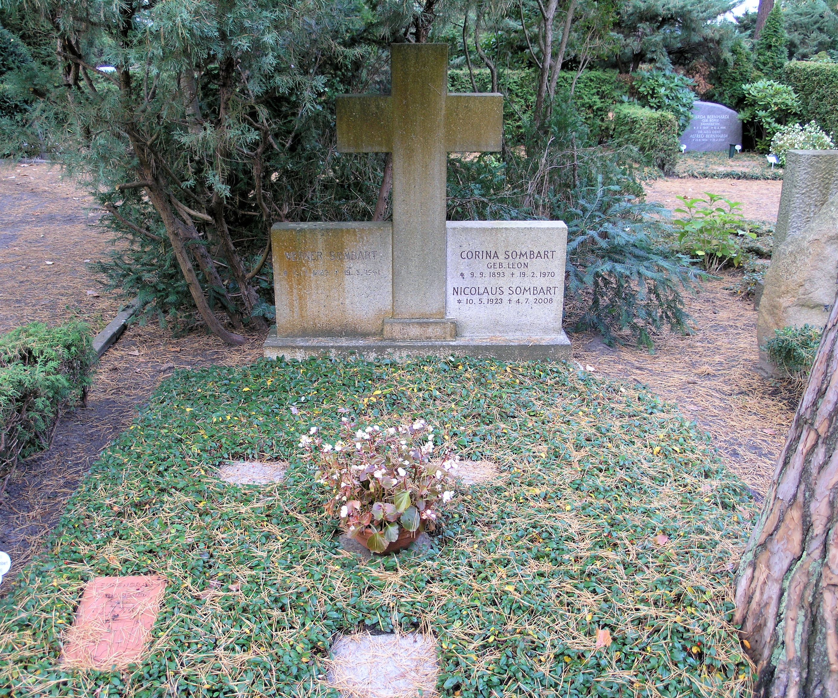 "Ehrengrab" (grave of honor), Werner Sombart, Hüttenweg 47, Berlin-Dahlem, Germany Koordinate:52°27′20″N 13°15′49″E / 52.45556°N 13.26361°E